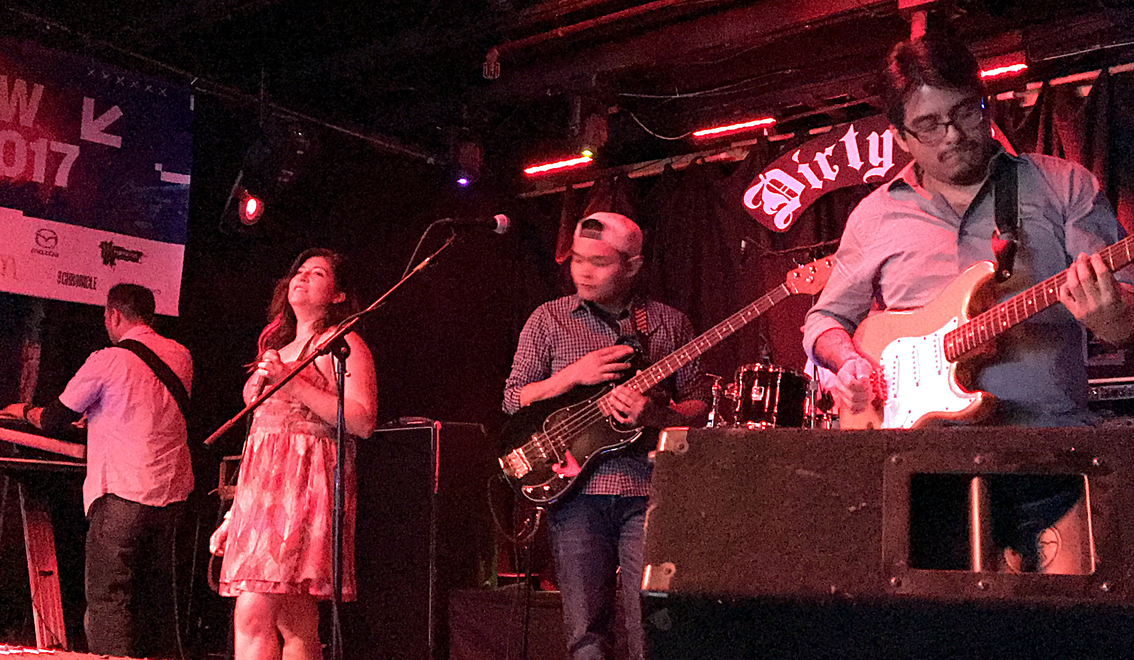 Channel K performs at the Dirty Dog Bar in Austin during South by Southwest 2017.